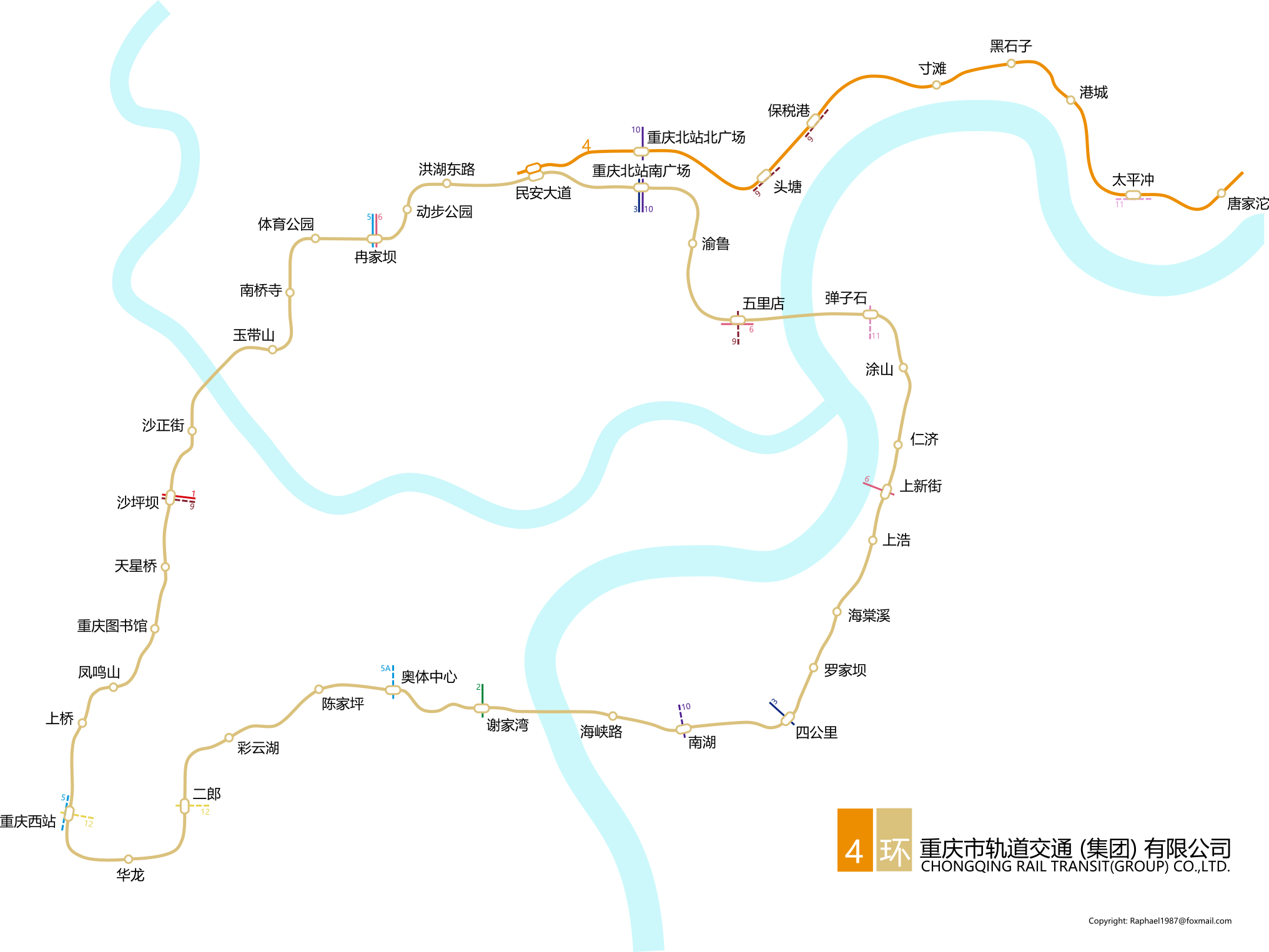 Route map of Chongqing metro LINE 4 (1st Phase) and LINE Loop. information comes from CRT (Chongqing Rail Transit).